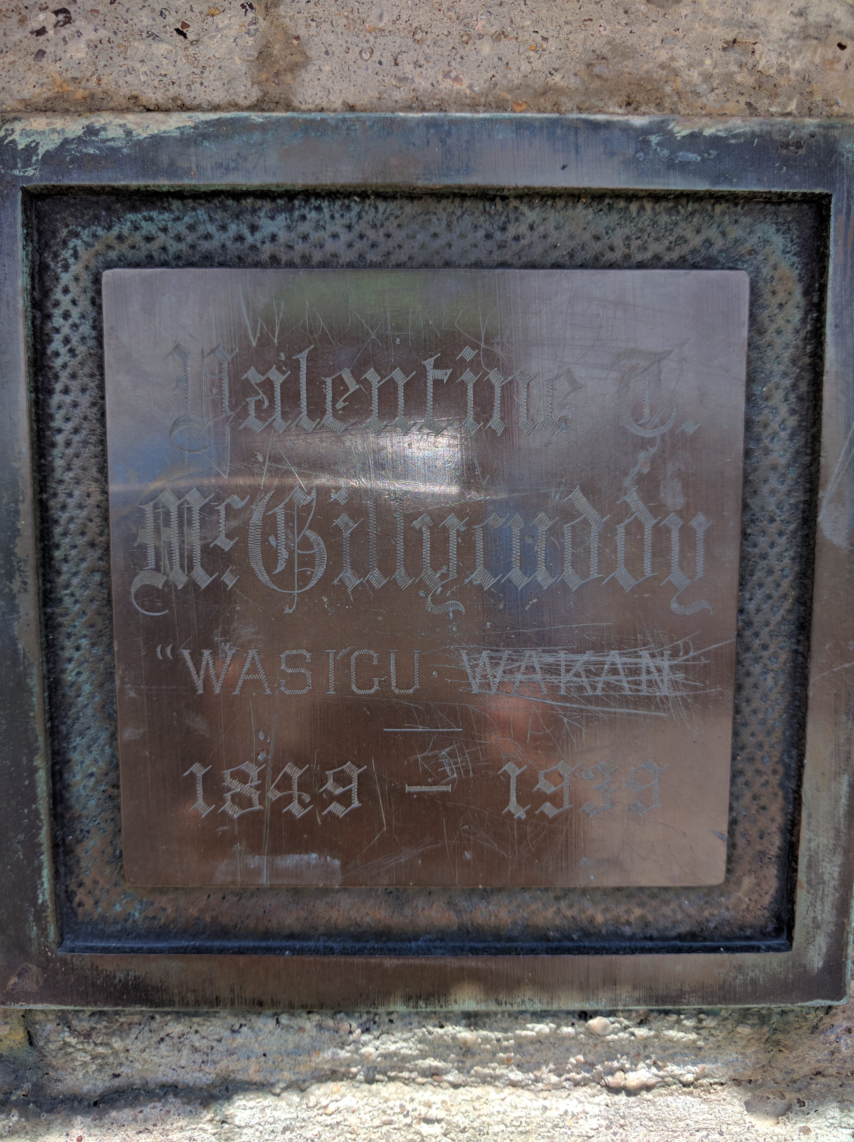 Hiking trip up Harney Peak (now Black Elk Peak) in July 2016. Plaque engraved with the words Valentine T. McGillycuddy "Wasicu Wakan" 1849–1939.